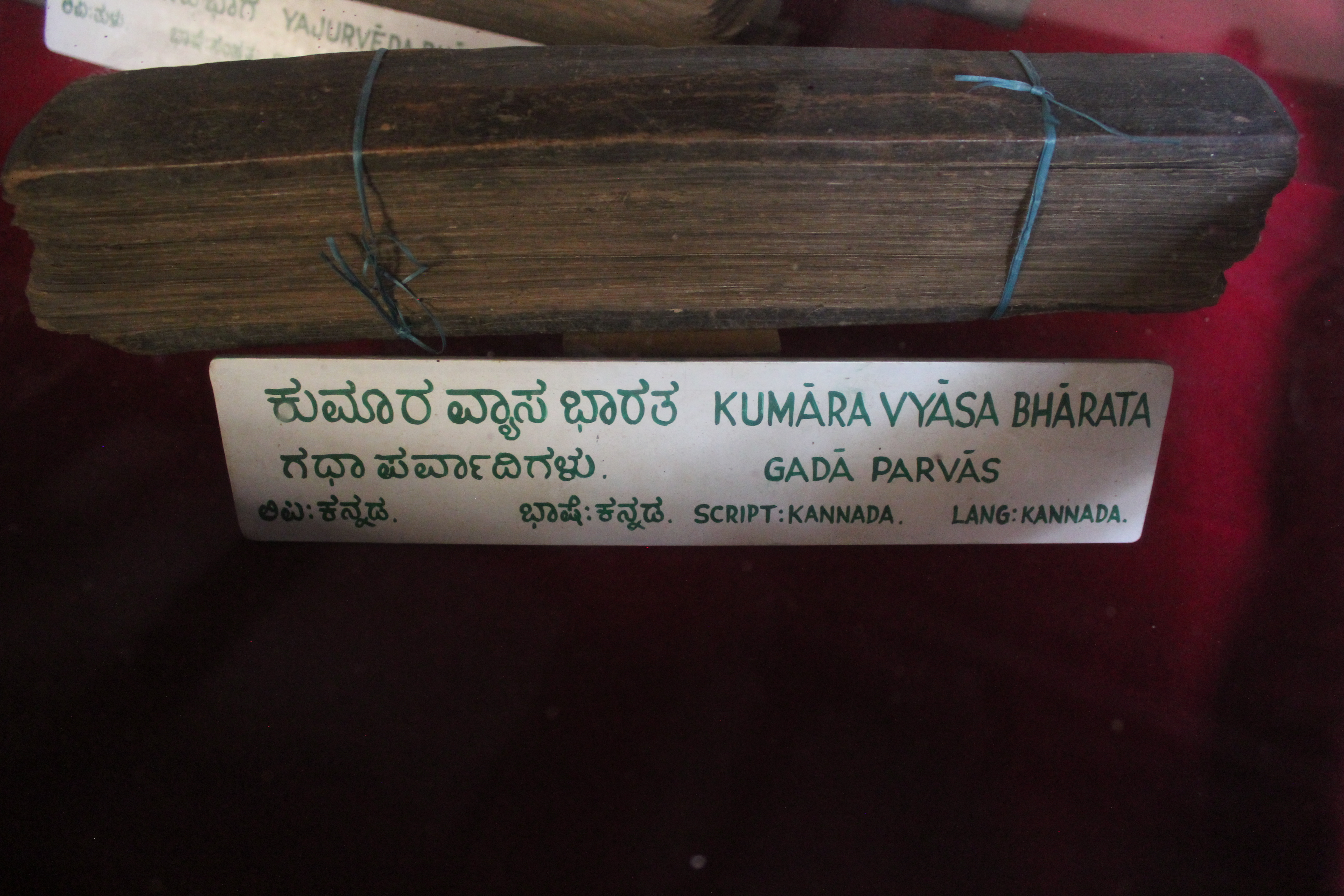 This photograph was taken at the Shivappa Nayaka palace and museum in Shivamogga city (formerly Shimoga) in Karnataka state, India. Kumaravyasa was in the patronage of the Vijayanagara Empire king Devaraya II